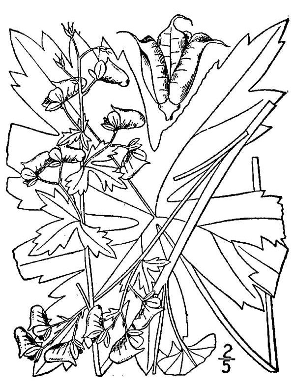 Aconitum reclinatum A.Gray (Trailing White Monkshood)